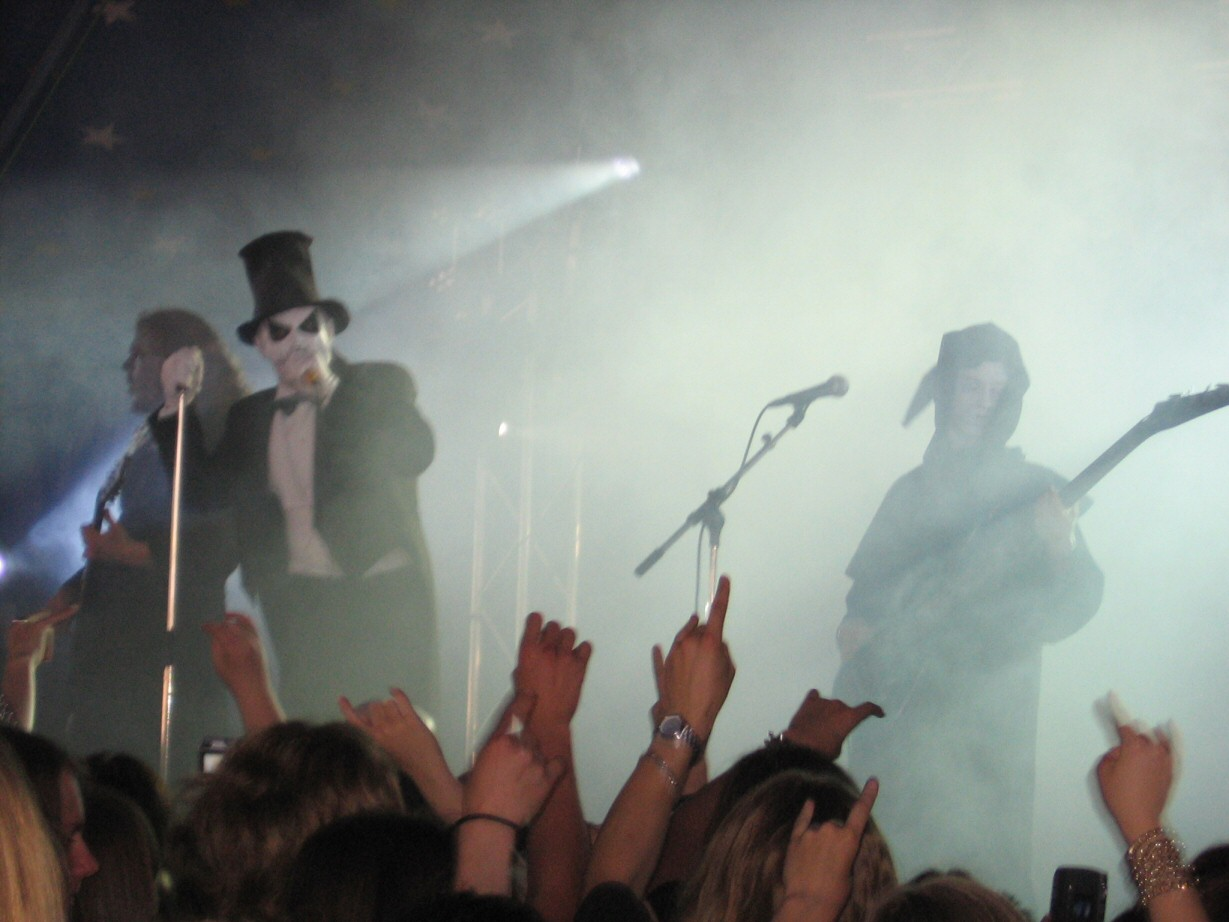 Finnish heavy metal band Verjnuarmu performing at Tuska Open Air Metal Festival 2006